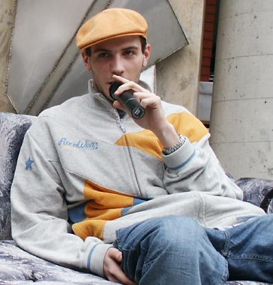 O.S.T.R. polish raper in Łódź